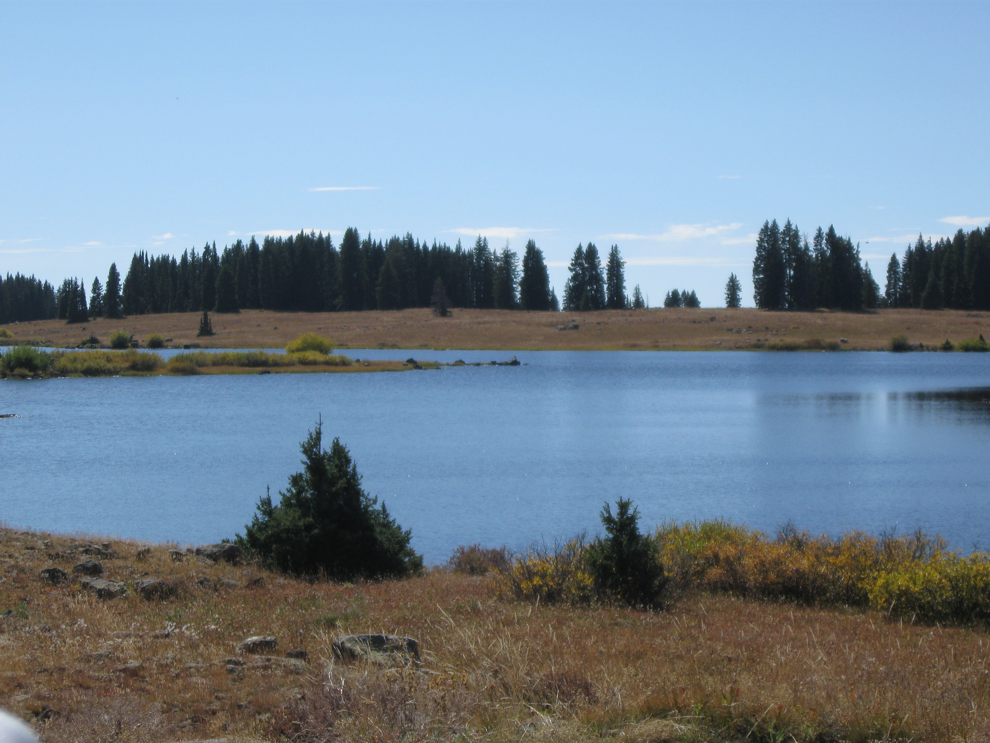 Pond on top of Grand Mesa Colorado. Photot taken on September 24 2011